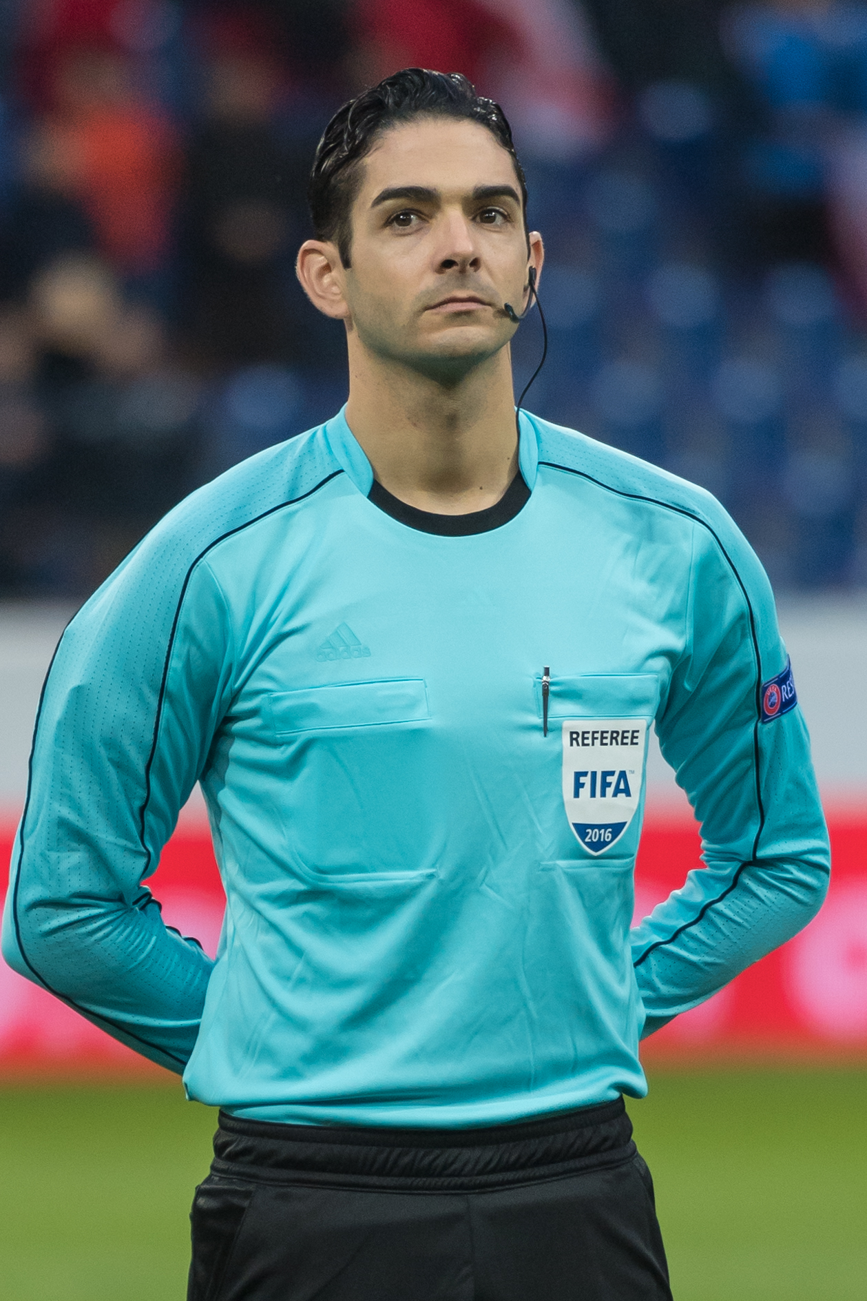 European Under-21 Championship 2017 Qualifying Round, Austria vs Germany, 11/10/2016, St. Polten